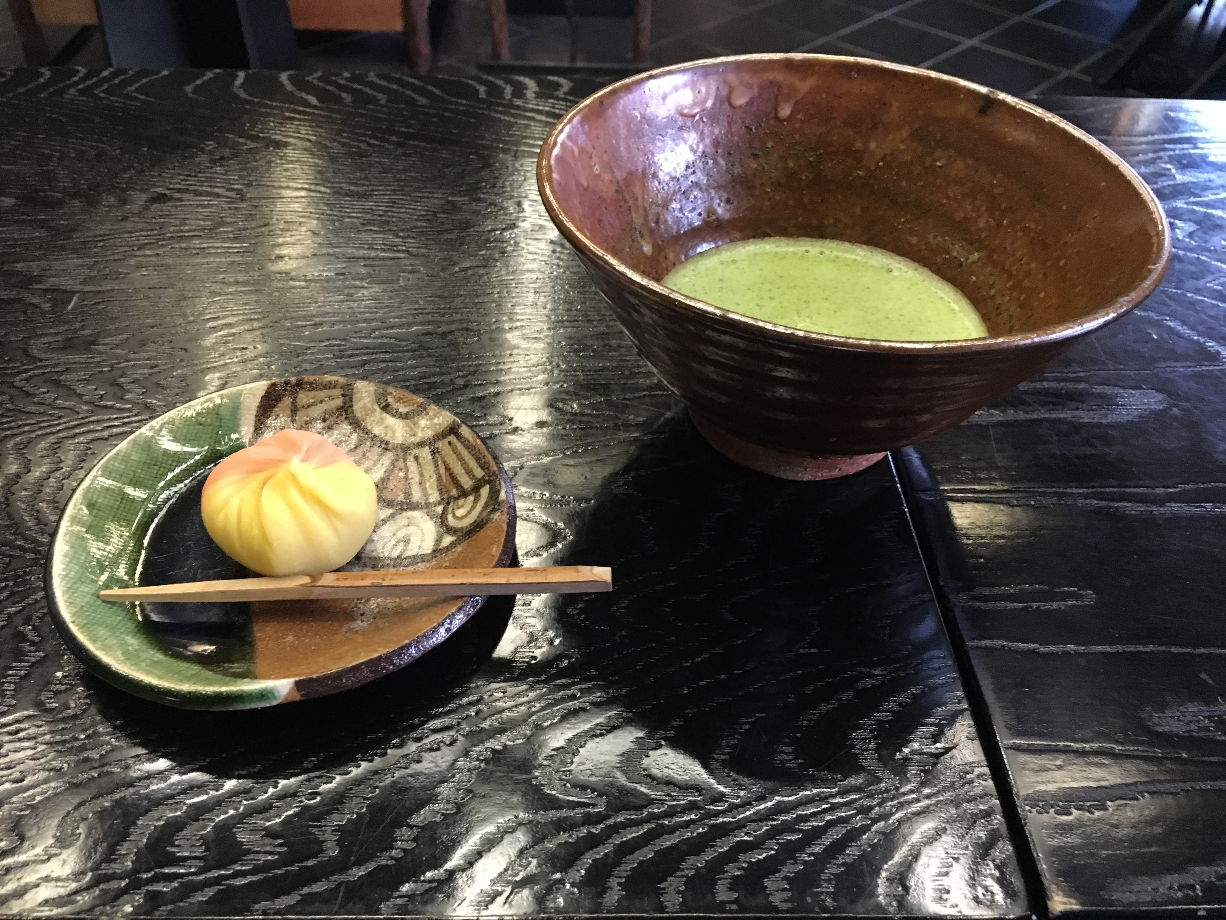 Bowl of macha green tea and small sweet on an oribe plate, at the Tōsui-an (陶翠庵) tea house at the Aichi Prefectural Ceramic Museum. The chawan is Ido type by Yamada Kazutoshi (山田和俊), the Oribe ware plate is from the ceramic craft studio of the museum done by staff.